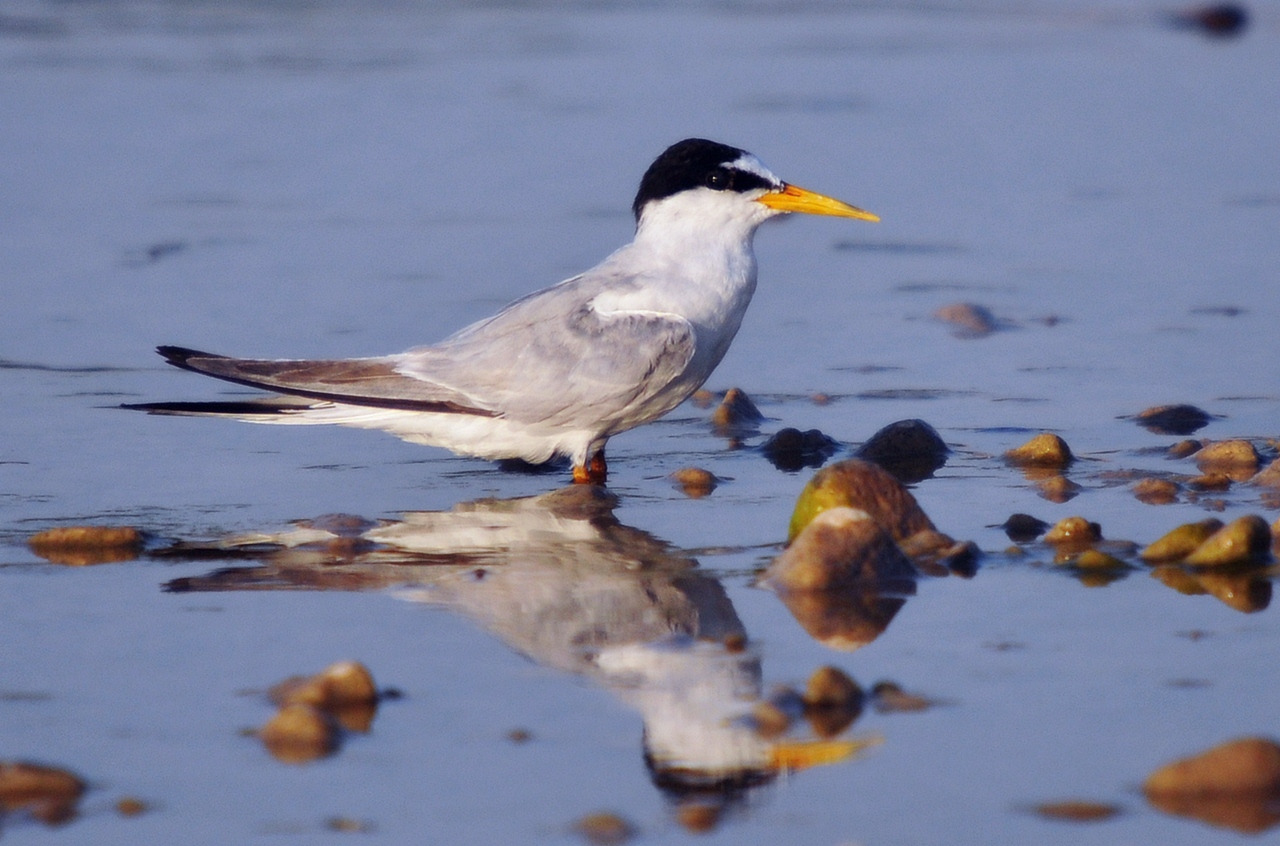 Little tern